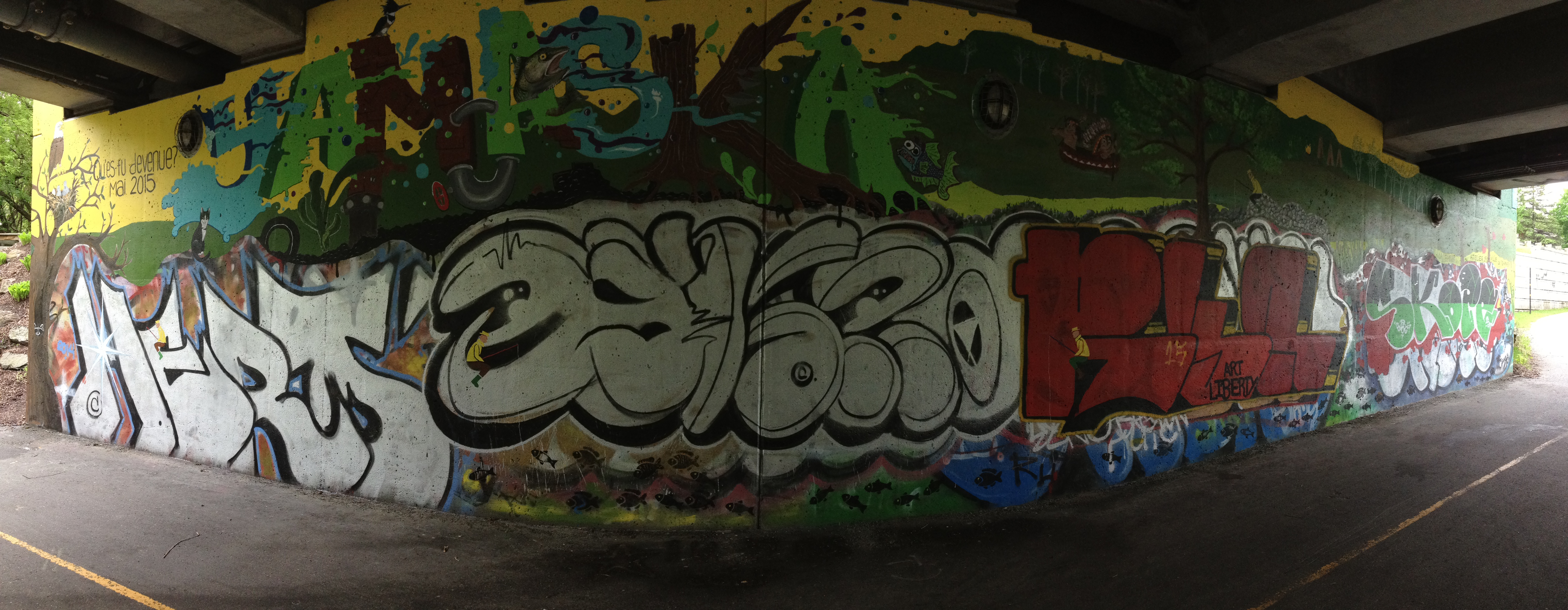 A panoramic photography of the mural beneath Patrick-Hackett Bridge in Granby.